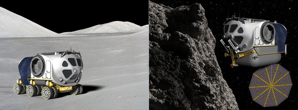 The Space Exploration Vehicle (SEV) has a flexible architecture, allowing it to be used as a rover or as a space vehicle.